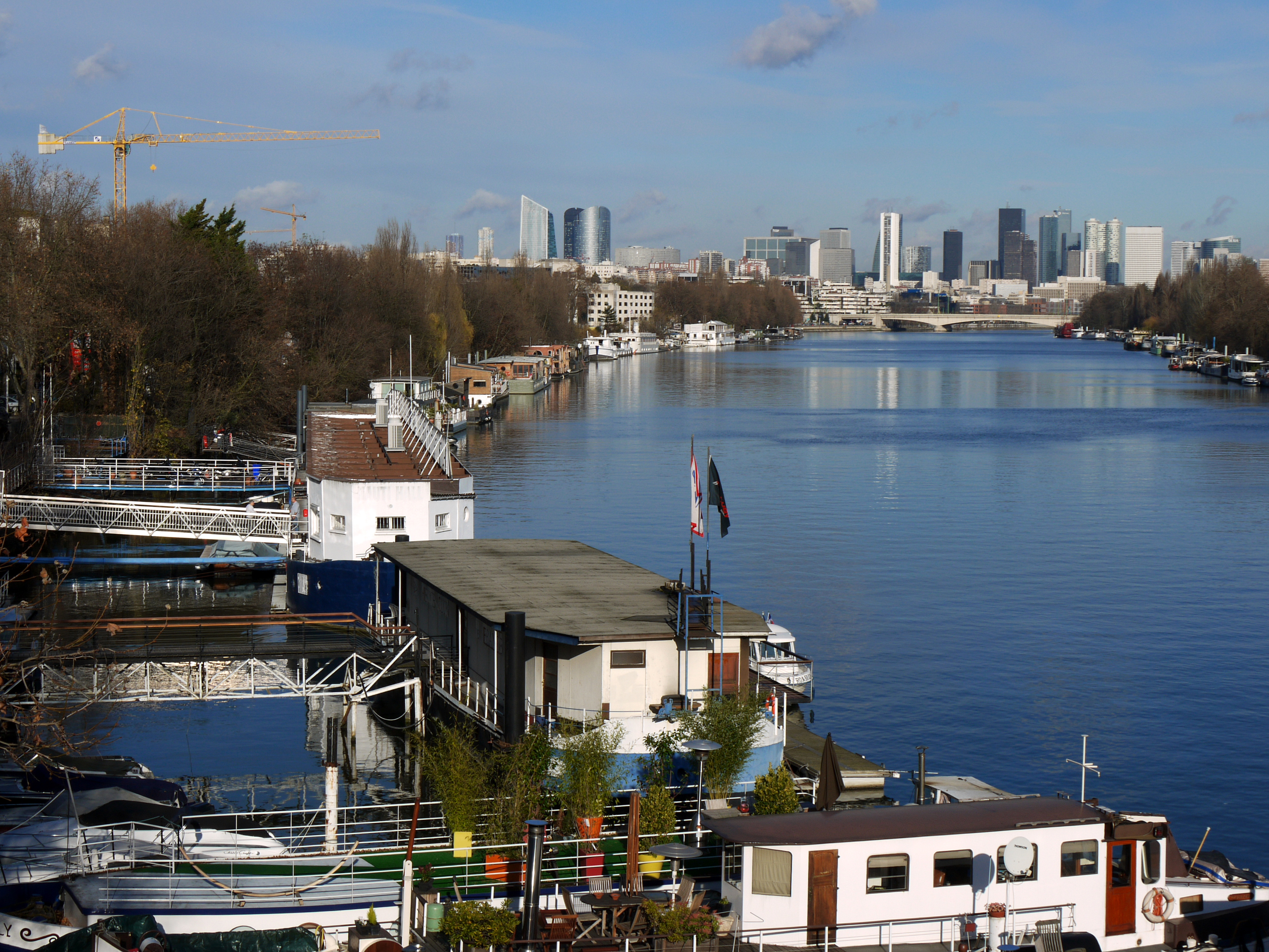 Barges along the Seine river in Saint-Cloud (left) and Bois de Boulogne, Paris XVIe arrondissement (right) with remote view of La Défense.